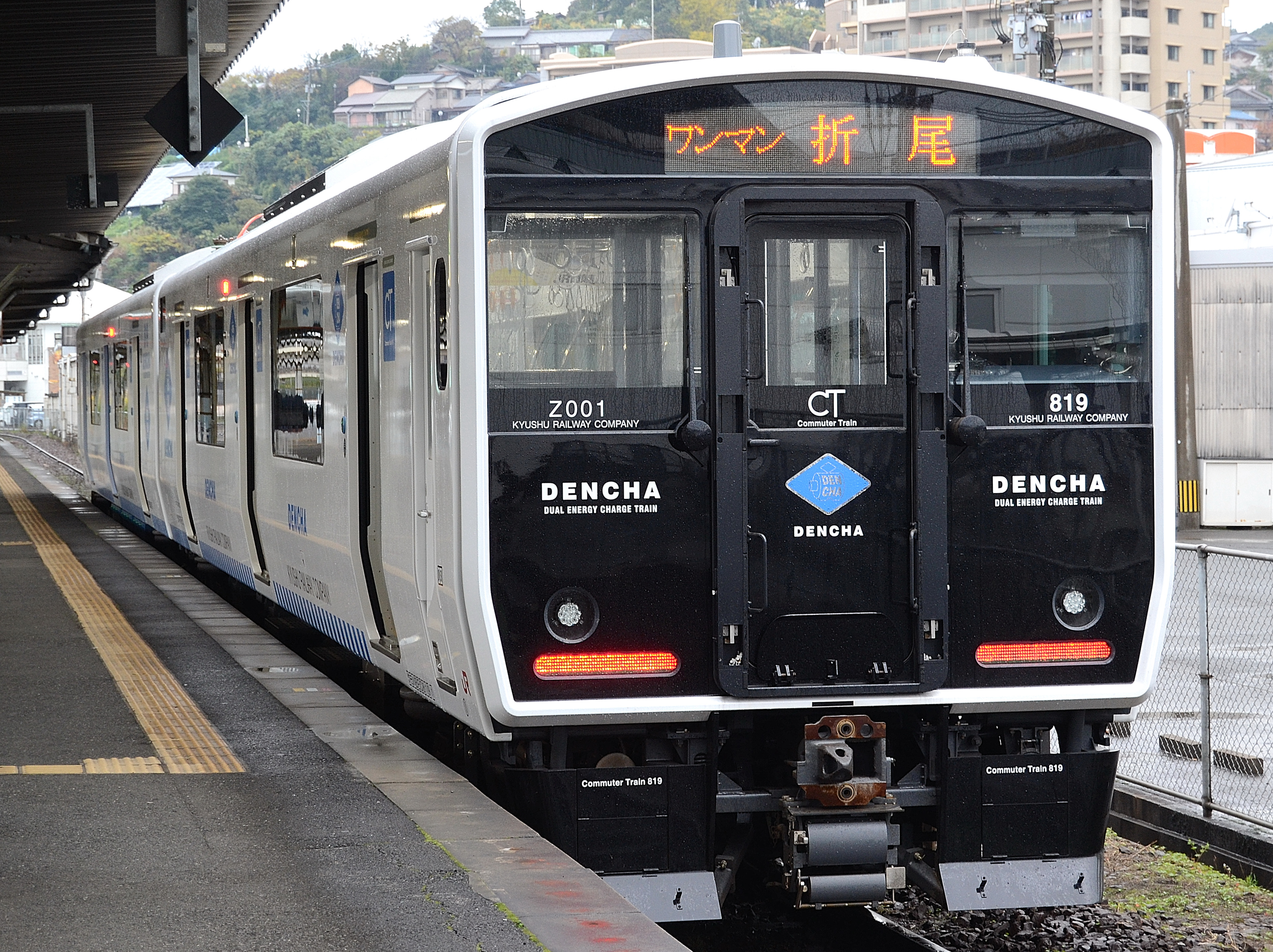 JR Kyushu BEC819 series BEMU set Z001 at Wakamatsu Station in Fukuoka Prefecture, Japan